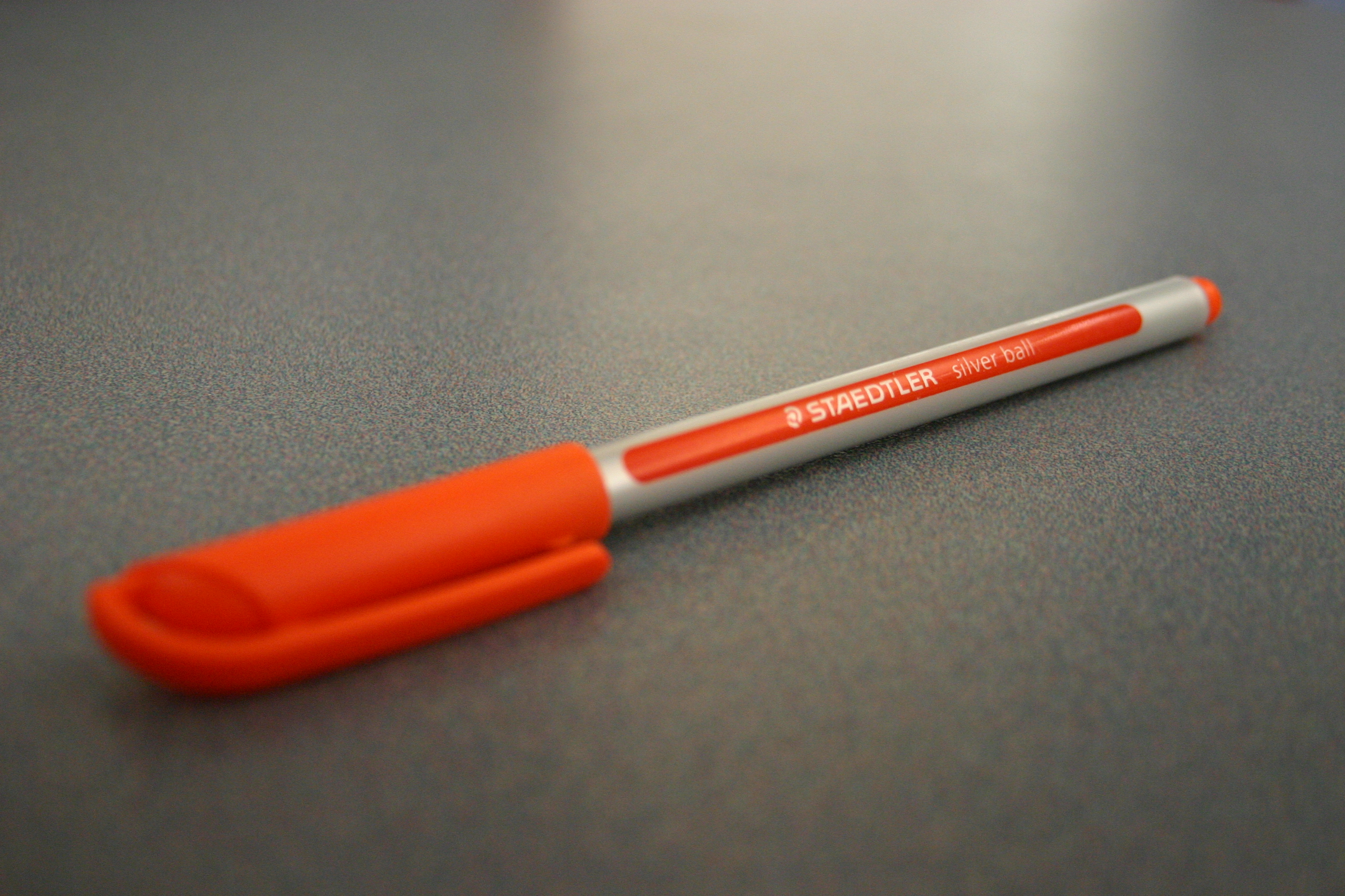 Picture of a orange staedtler ball point pen.